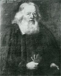 Swedish bishop Johannes Petri Ungius (1570-1617)